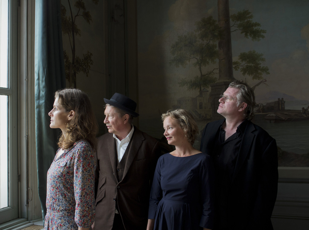 Avalanche Quartet